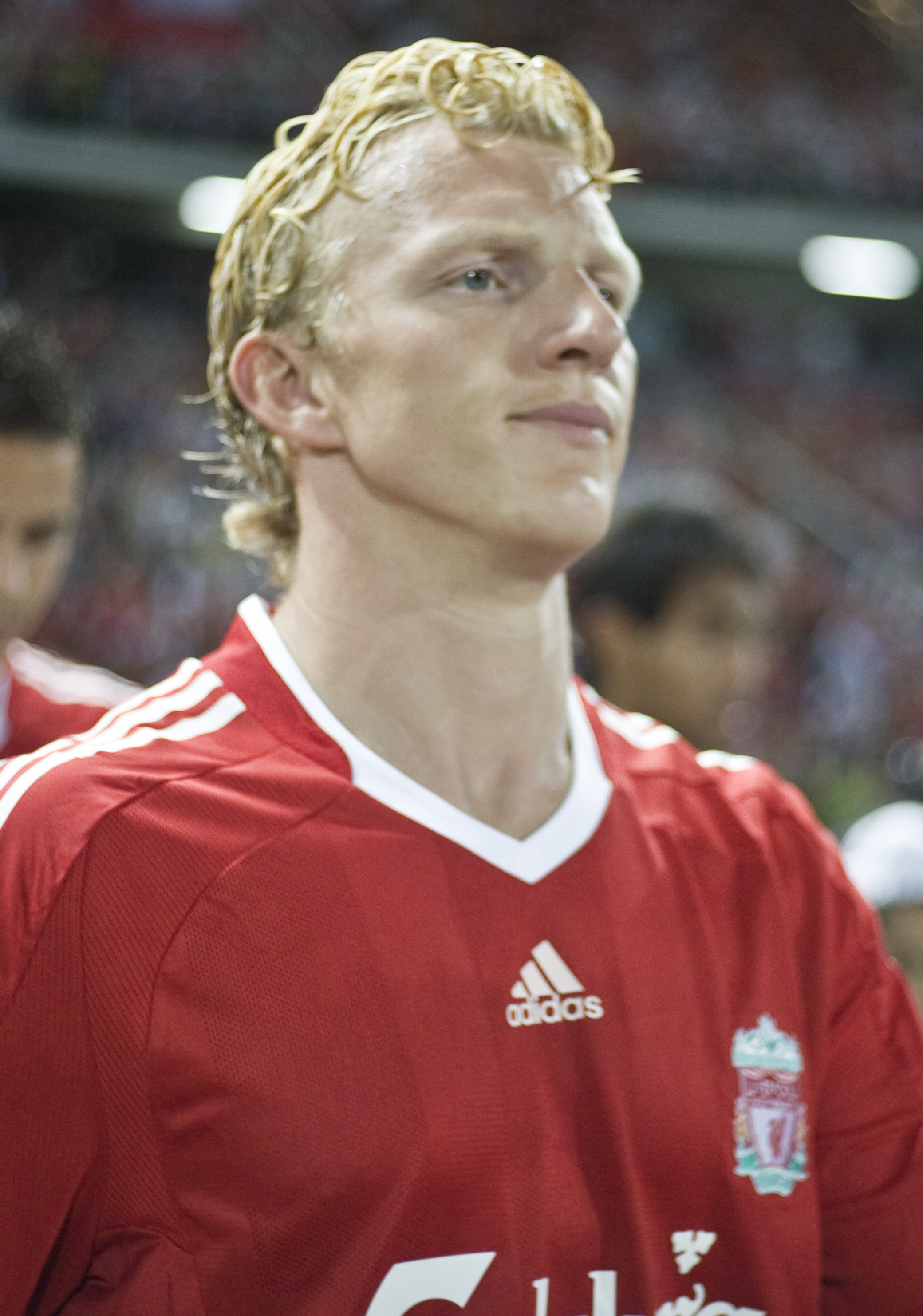 Dirk Kuijt during a match of FC Liverpool in Thailand. (The Official Site of The Prime Minister of Thailand Photo by พีรพัฒน์ วิมลรังครัตน์)